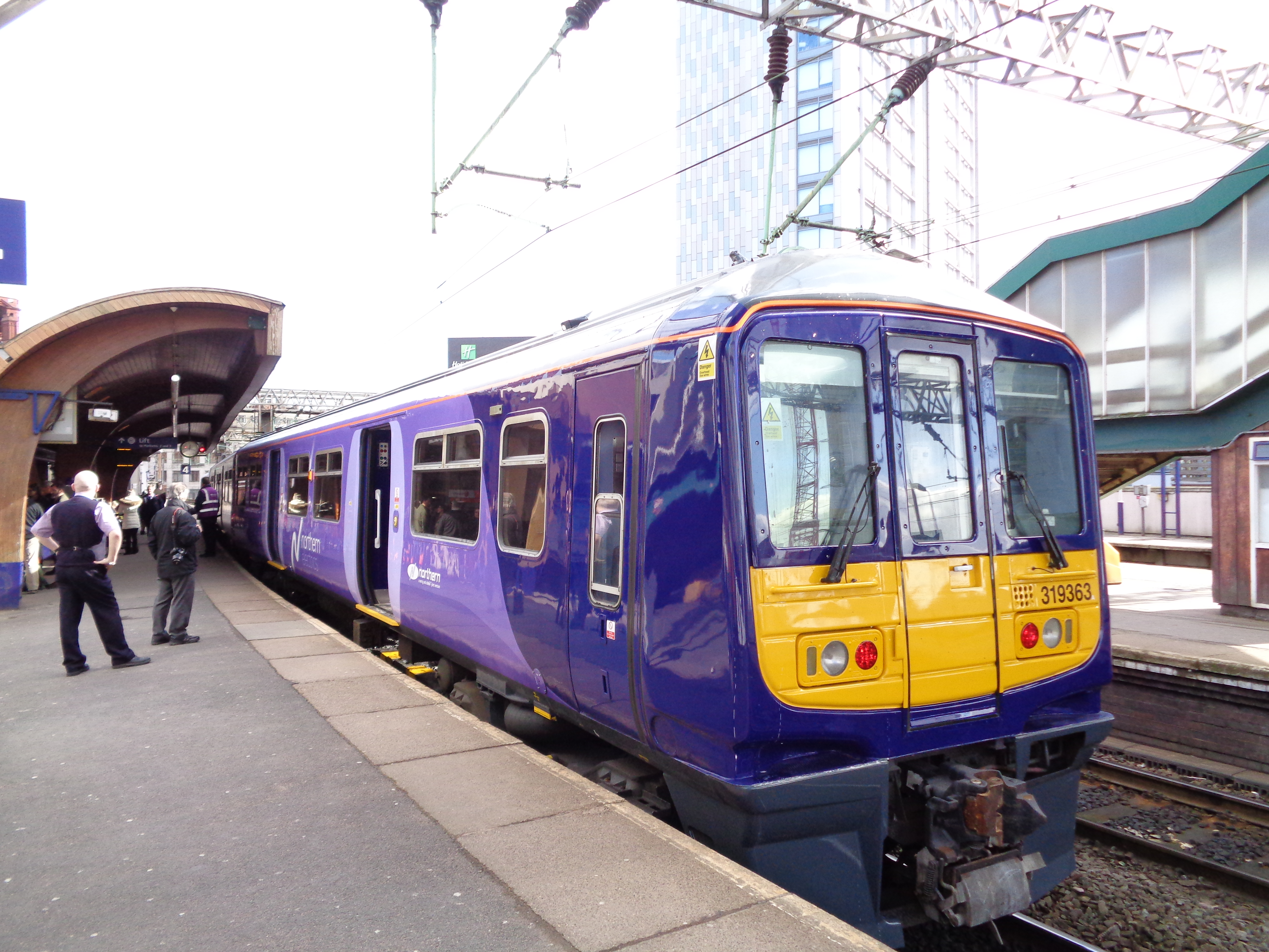 319363 at Manchester Oxford Road, prior to departure on a service from Liverpool Lime Street to Manchester Airport via Newton-le-Willows. Electric passenger trains started running on this newly-electrified route on 5th March 2015.